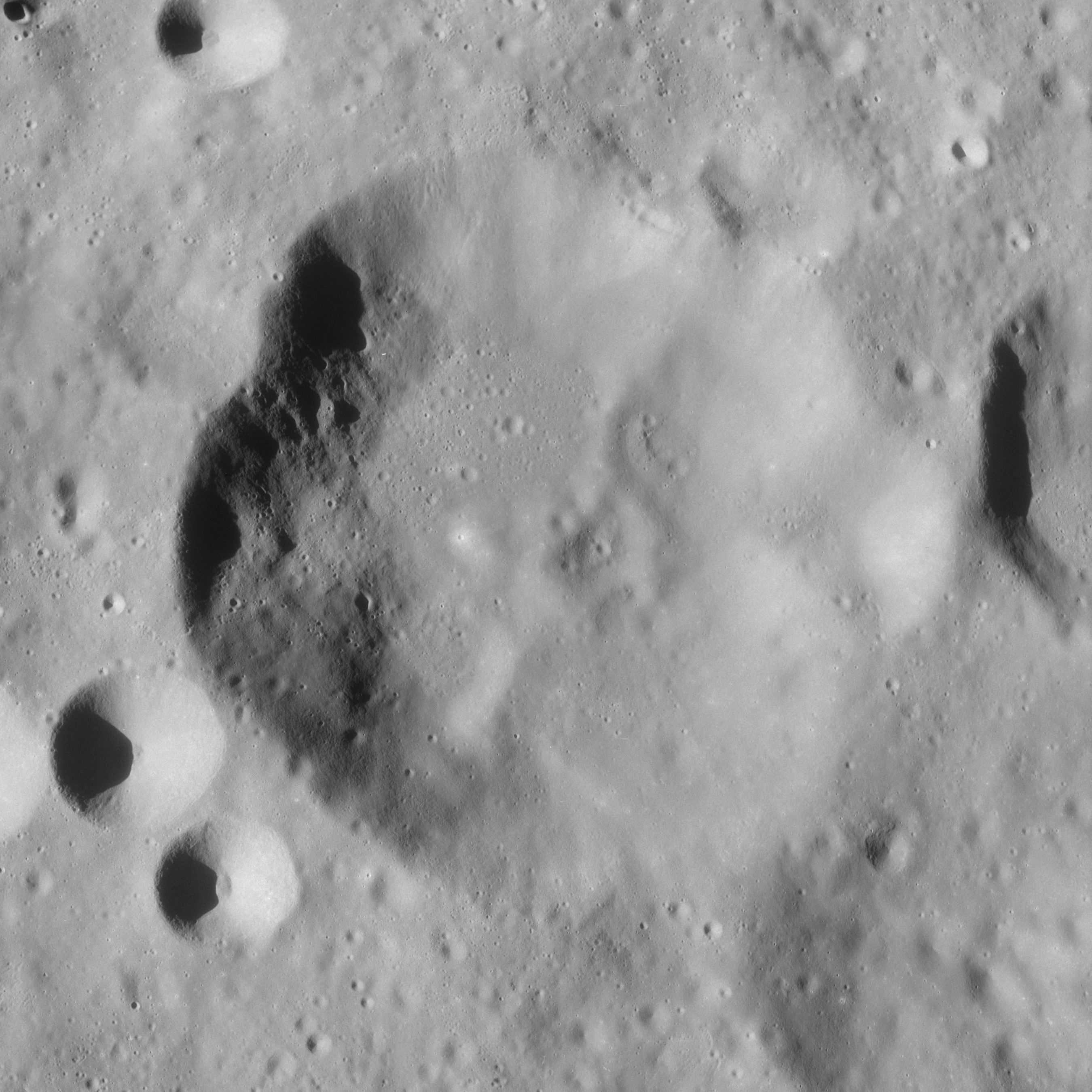 Krasovskiy P crater, southwest of Krasovskiy crater, on the far side of the moon